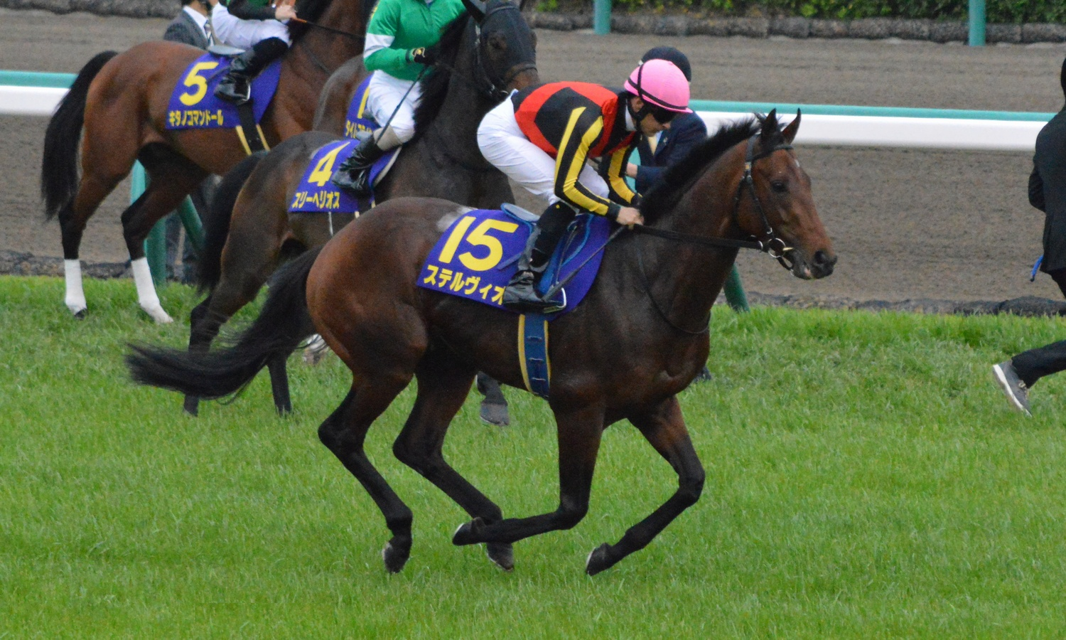 Japanese race horse Stelvio at Nakayama racecourse. Nakayama (JPN) 15 Apr 2018Satsuki Sho (Grade 1) (3yo Colts & Fillies) (Turf) 1m2f Firm RankHorse NameOddsAgeWgtTrainerJockey1stEpoca D'Oro (JPN)135/10C39-0Hideaki FujiwaraKeita Tosaki2ndSans Rival (JPN)236/10C39-0Kenichi FujiokaYusuke Fujioka3rdGenerale Uno (JPN)168/10C39-0Eiichi YanoHironobu Tanabe4thStelvio (JPN)27/10C39-0Tetsuya KimuraChristophe-Patrice Lemaire5th - 16th/omission